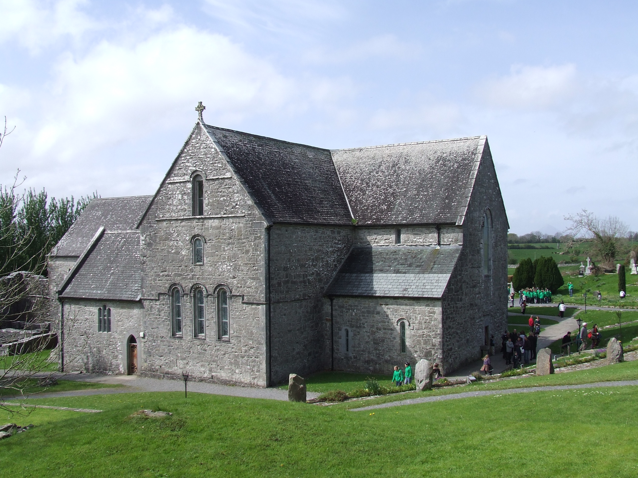 Ballintubber Abbey, Ballintubber, County Mayo, Ireland. Easter Sunday, 2011. Eastern elevation showing Romanesque arches of the Sanctuary.